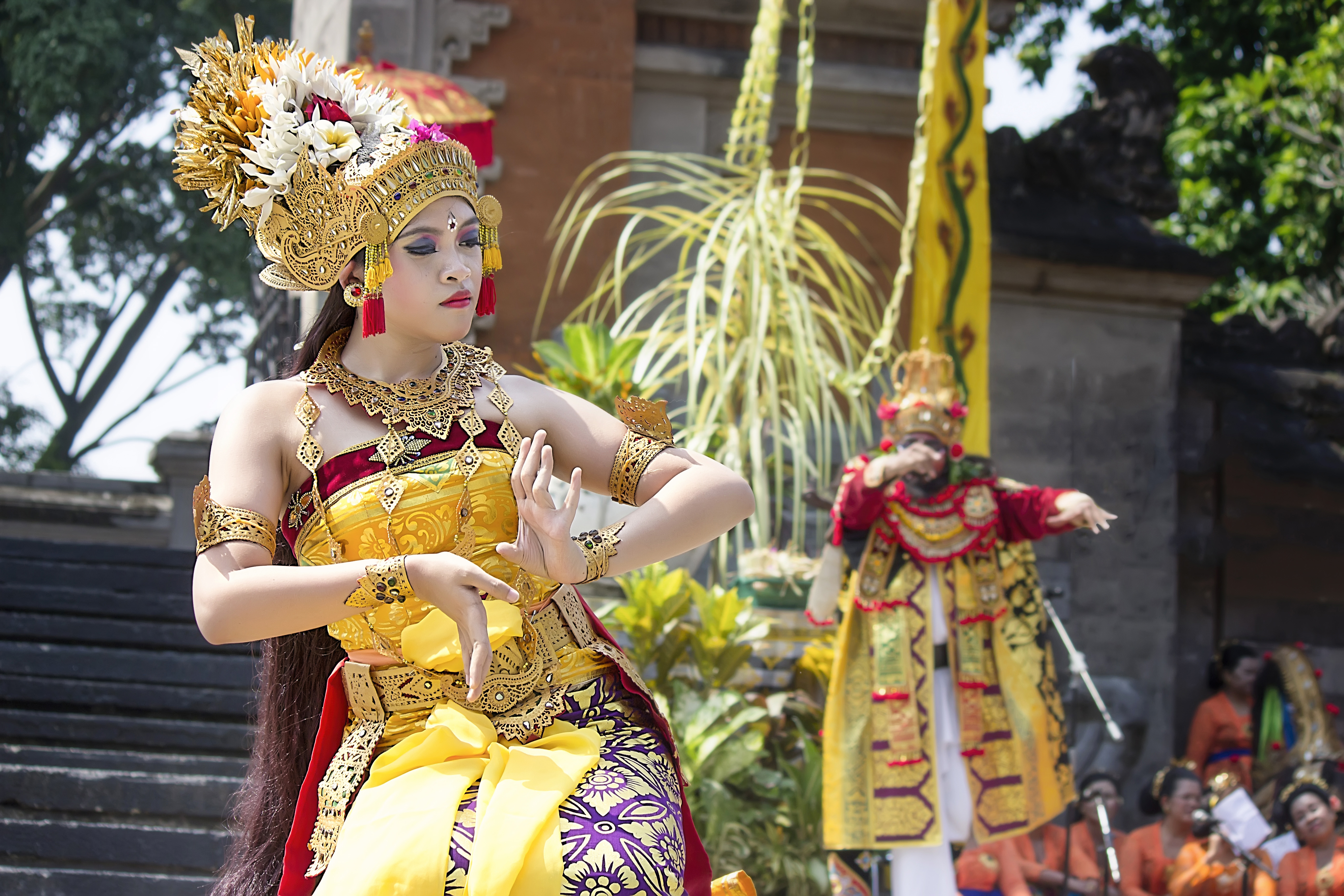 classical dance performance